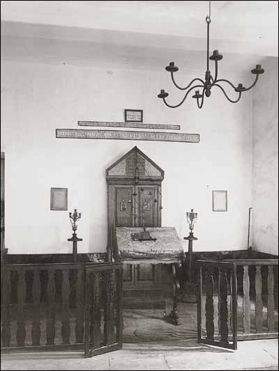 Photo of 1890, of the synagogue in the former prison of the Fort Vauban in Nîmes (France)